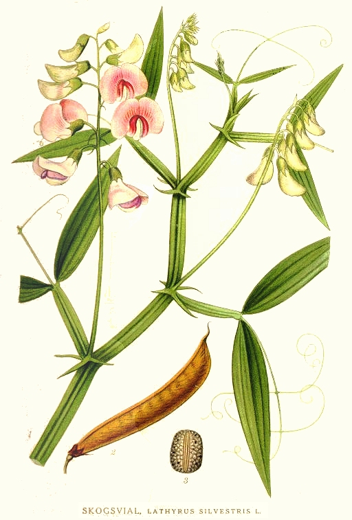 Lathyrus sylvestris L. Original Description Skogsvial, Lathyrus silvestris L.